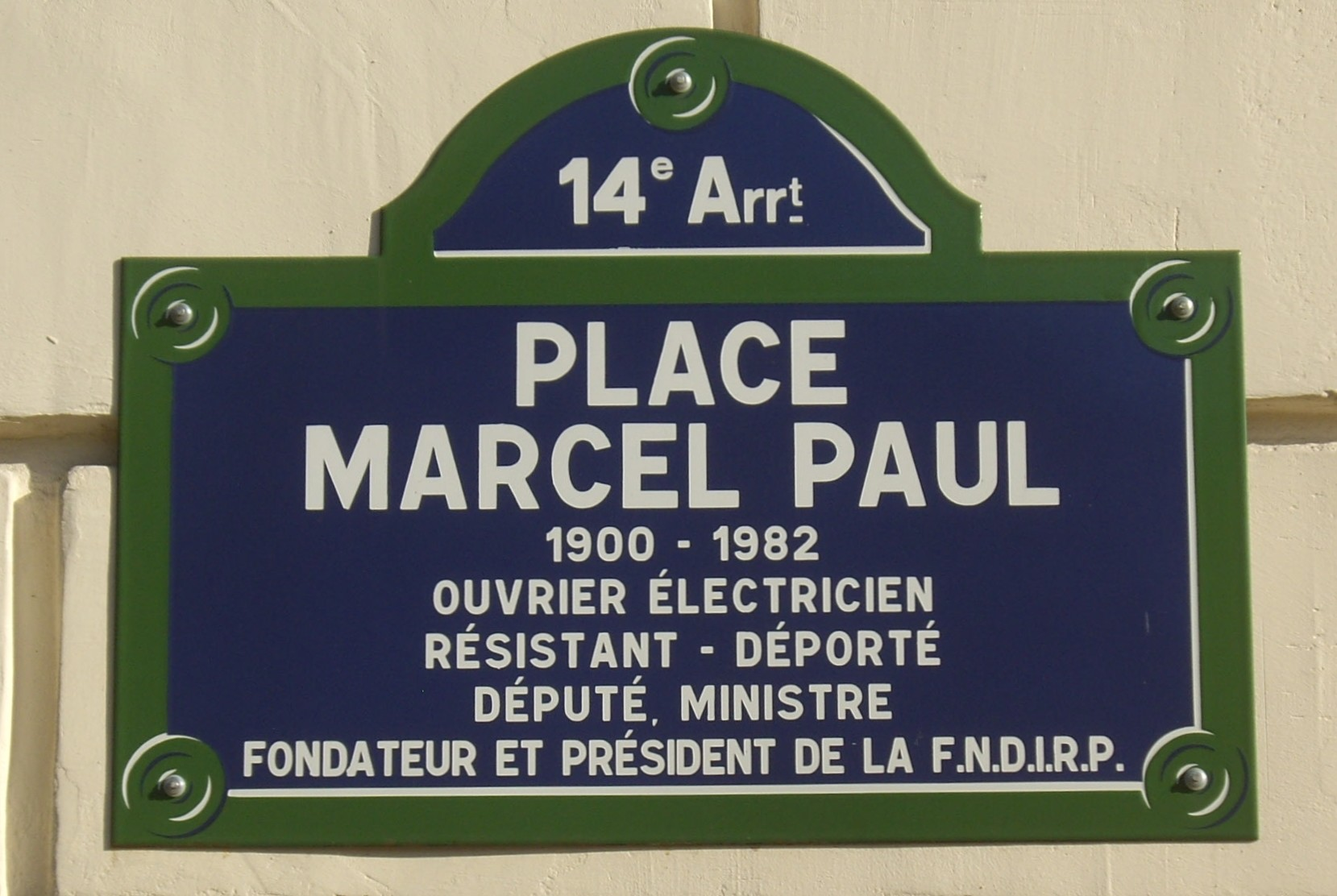 Place Marcel-Paul, Paris 14e. « Marcel Paul, 1900-1982, ouvrier électricien, résistant déporté, député, ministre, fondateur et président de la FNDIRP. »